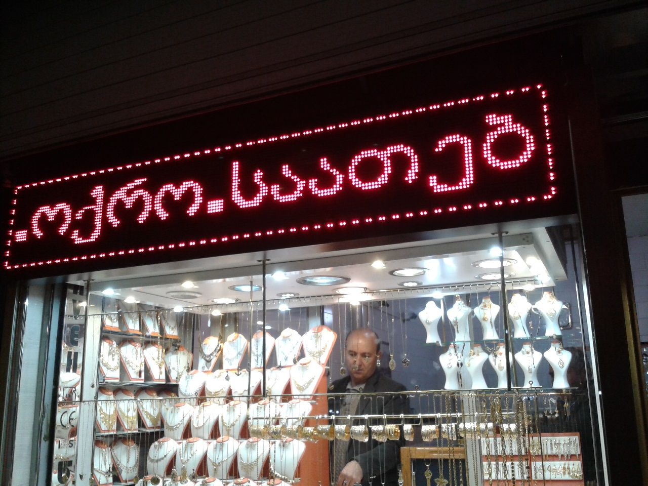 Some of stores in Fereydan have Georgian inscriptions on their tableaus.